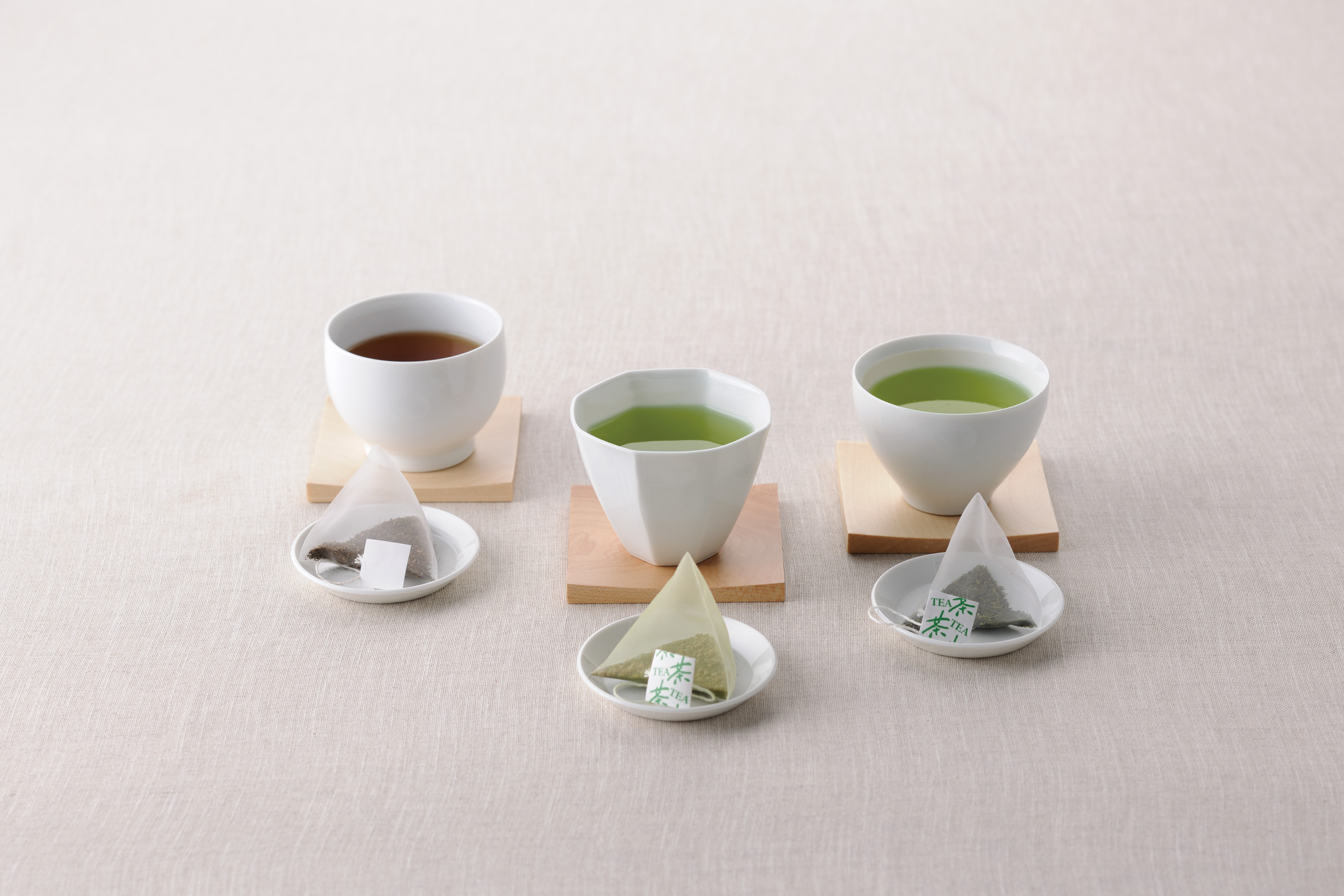 Since 1933 Maruyama Tea Products Corporation has been offering green tea with passion and , worked to tea devoted in the land of Kakegawa, Shizuoka, Japan. We are blessed with the motherland of Japanese Tea.Maruyama Tea is unique, that is founded on a passionate commitment to quality and authenticity in Green tea, it is also a part of a philosophy that goes beyond commerce in seeing business as a matter of human service. We cooperated with local farmers to spread “deep steamed tea”, and now Kakegawa steamed tea has grown to become a nationwide brand. The craftsmanship that has been cultivated to create delicious tea and the hard handedness that always looks ahead of the times and acts boldly. Maruyama tea pursues these two contradictory factors at the same time and provides Japanese traditional culture called tea in a form suitable for the era “now”.